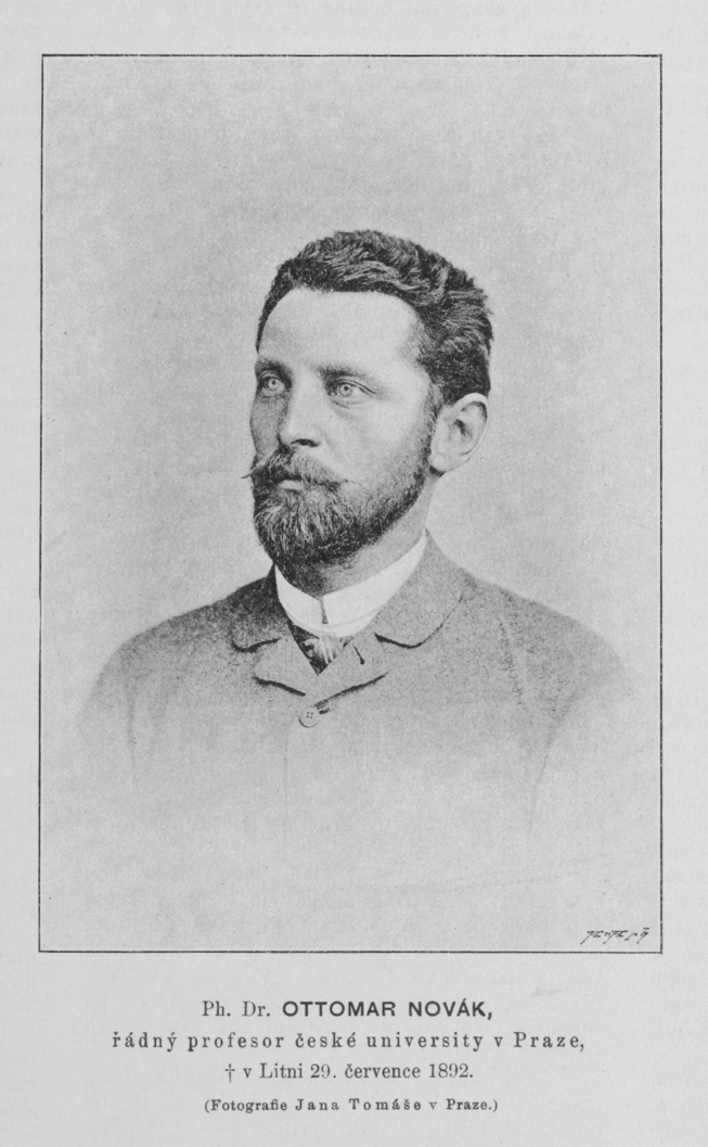 Portrait of Otomar Pravoslav Novák (1851-1892), Czech paleontologist.